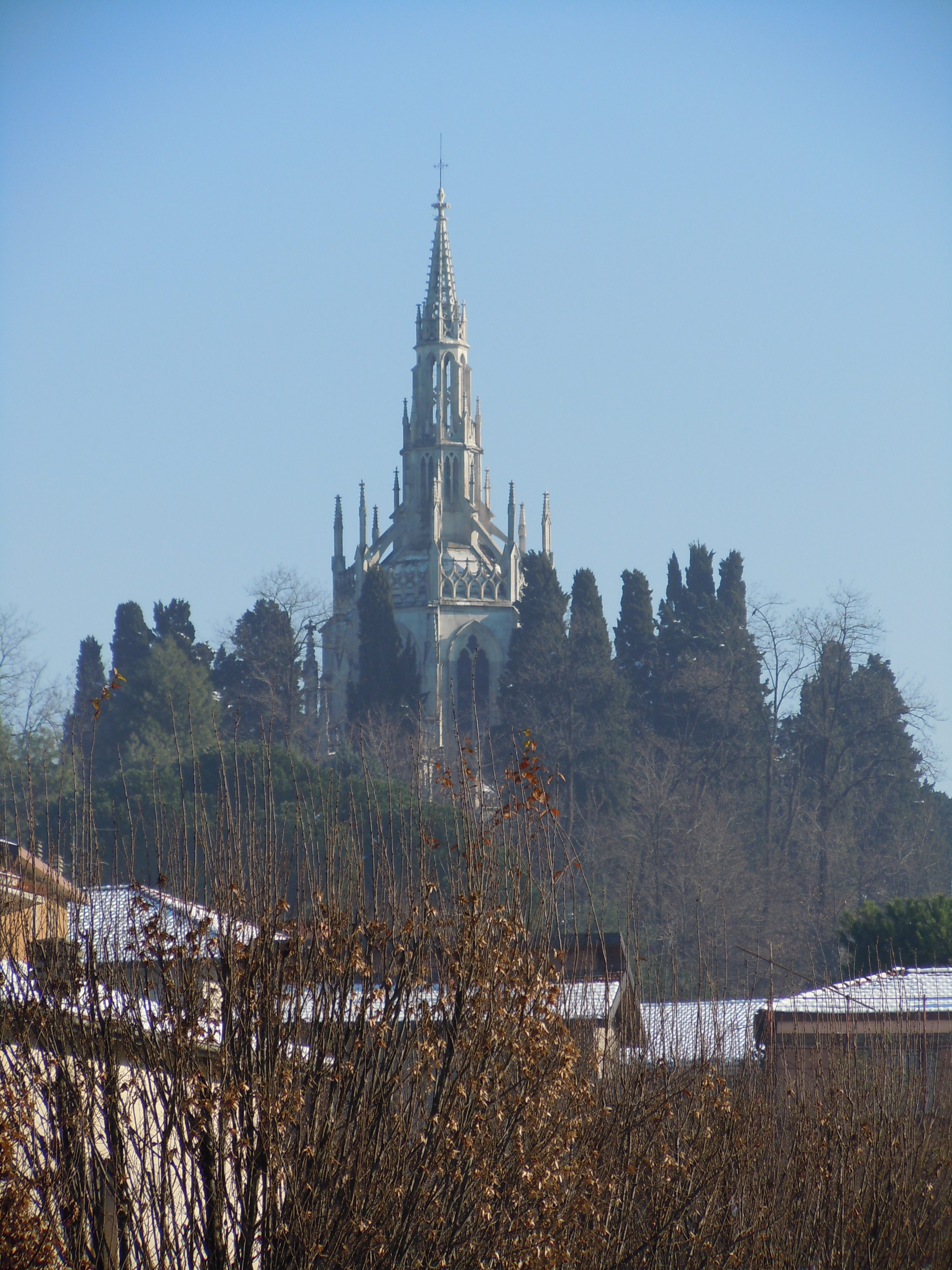 View of the Mausoleo Visconti di Modrone from Veduggio